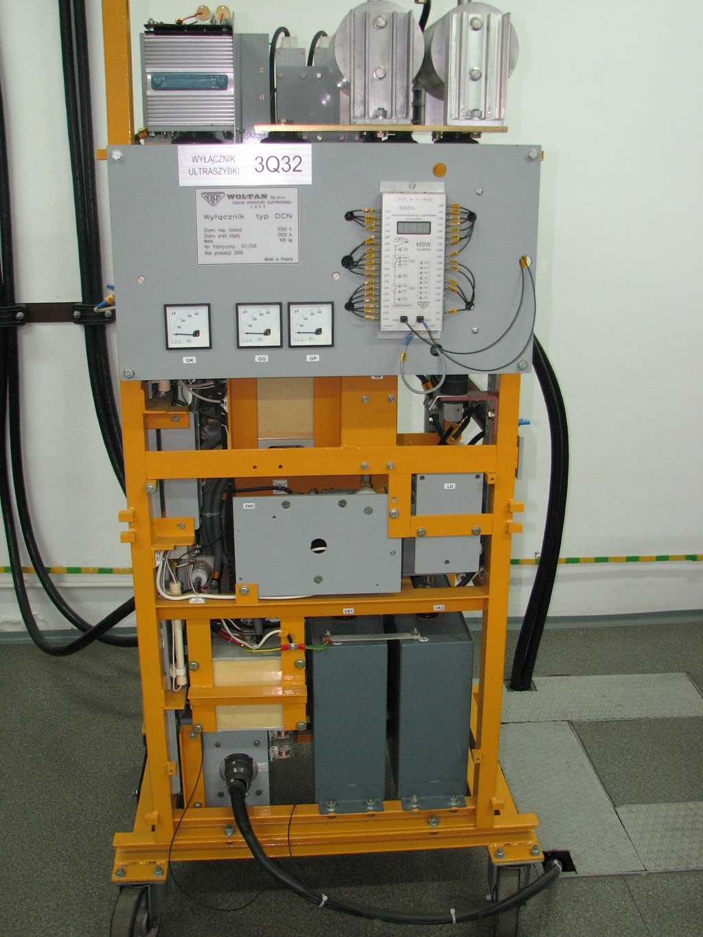 Example of the world's fastest circuit breakers for traction, which are patented by the Department of Electrical Apparatus